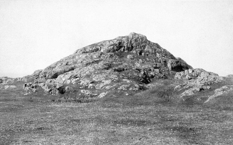 Photograph of Dùn Morbhaidh on the Inner Hebridean island of Coll. The source website gives the caption of this image as: General view of fort. Original historic photograph mounted on card and annotated by Erskine Beveridge 'Dun Borbaidh, Coll'.